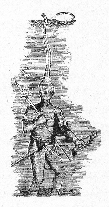 Diver of Vegetius, 1511